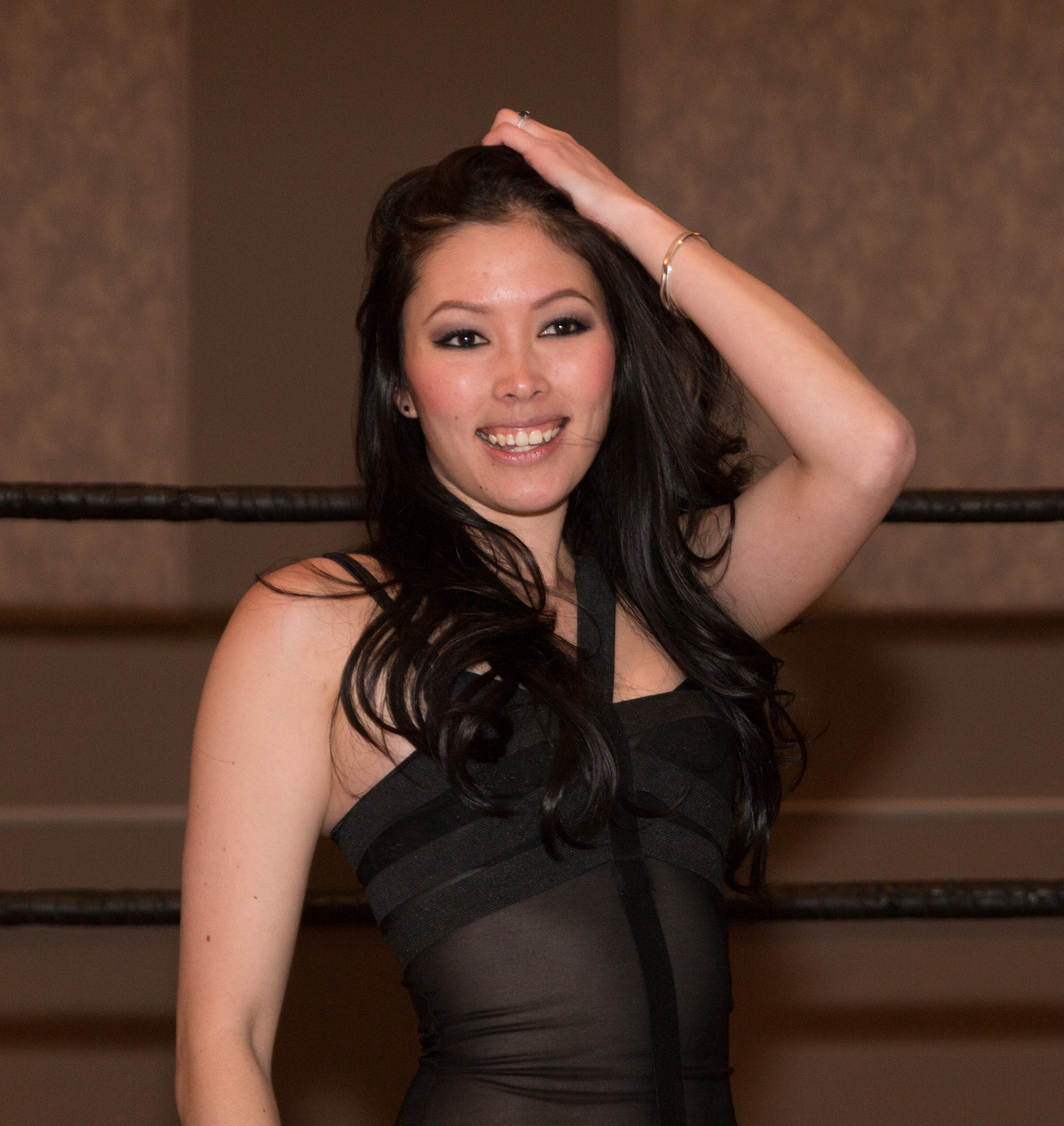 Jade Chung at the Hardcore Roadtrip show in 2014